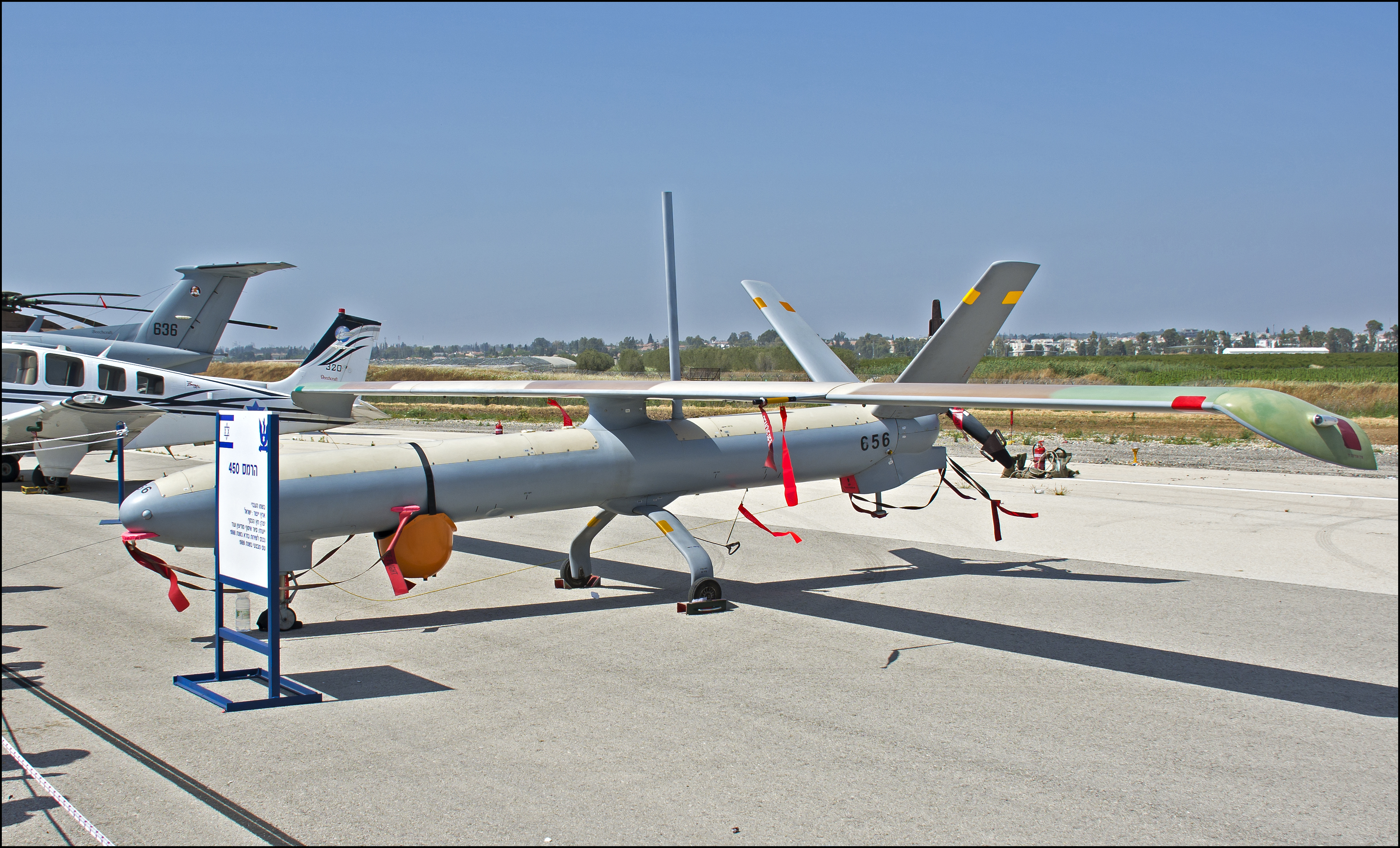 IAF Elbit Hermes 450 "Zik", Israeli Air Force, Independence Day 2017